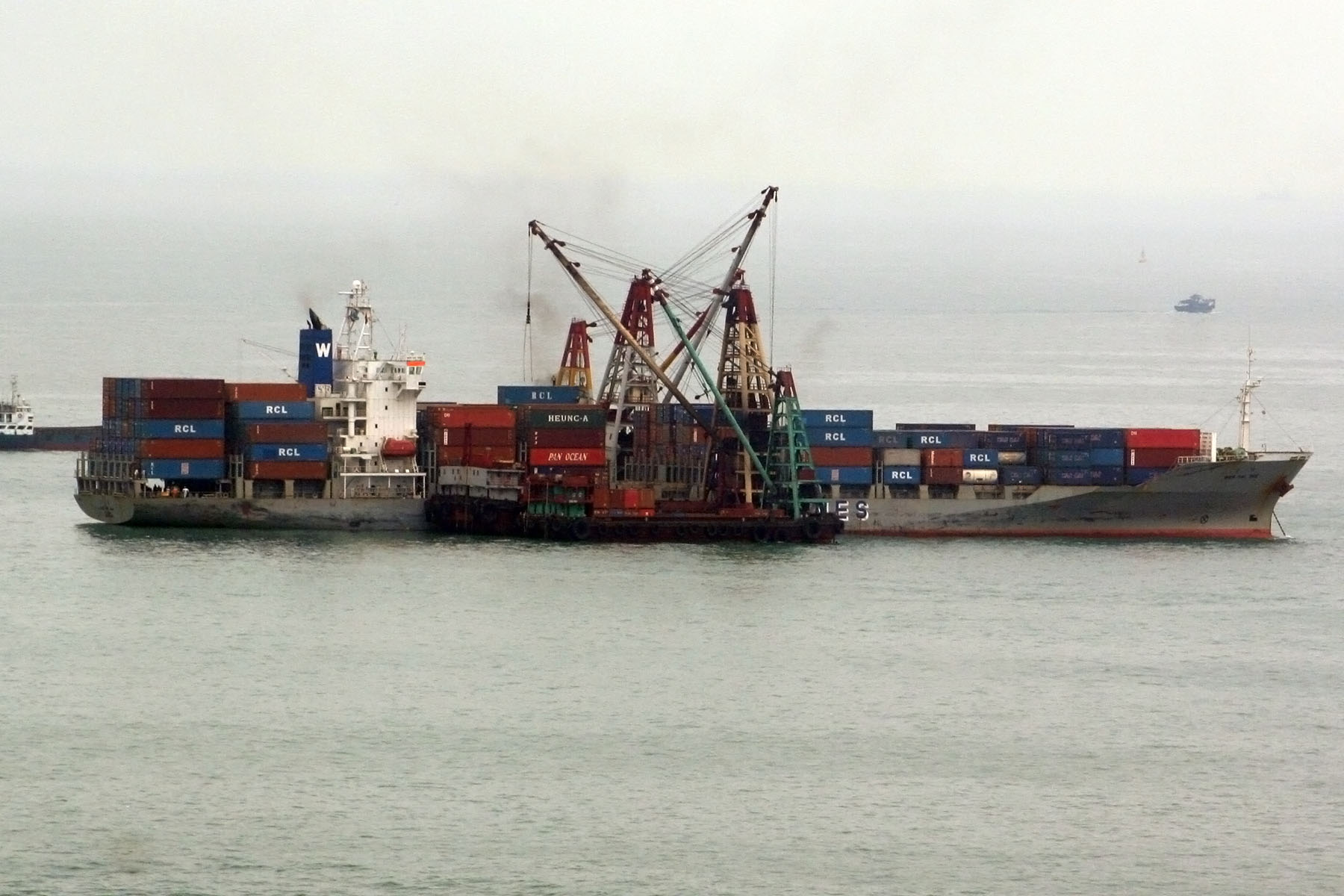 Midstream shipping operations in Hong Kong, near Lamma Island